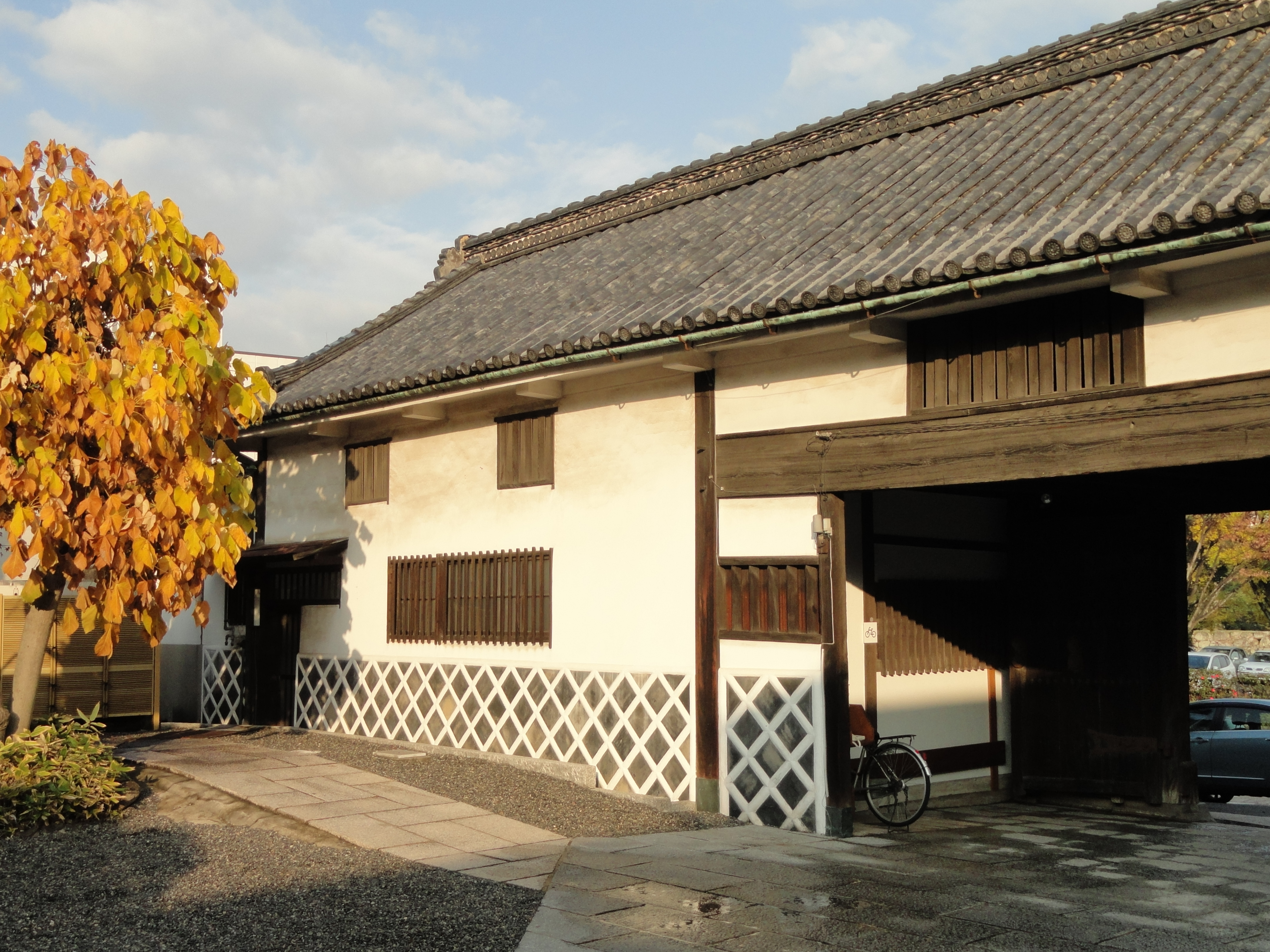 Exhibit in the Okayama Orient Gate of the Hayashibara Museum of Art, Okayama City, Okayama, Japan.